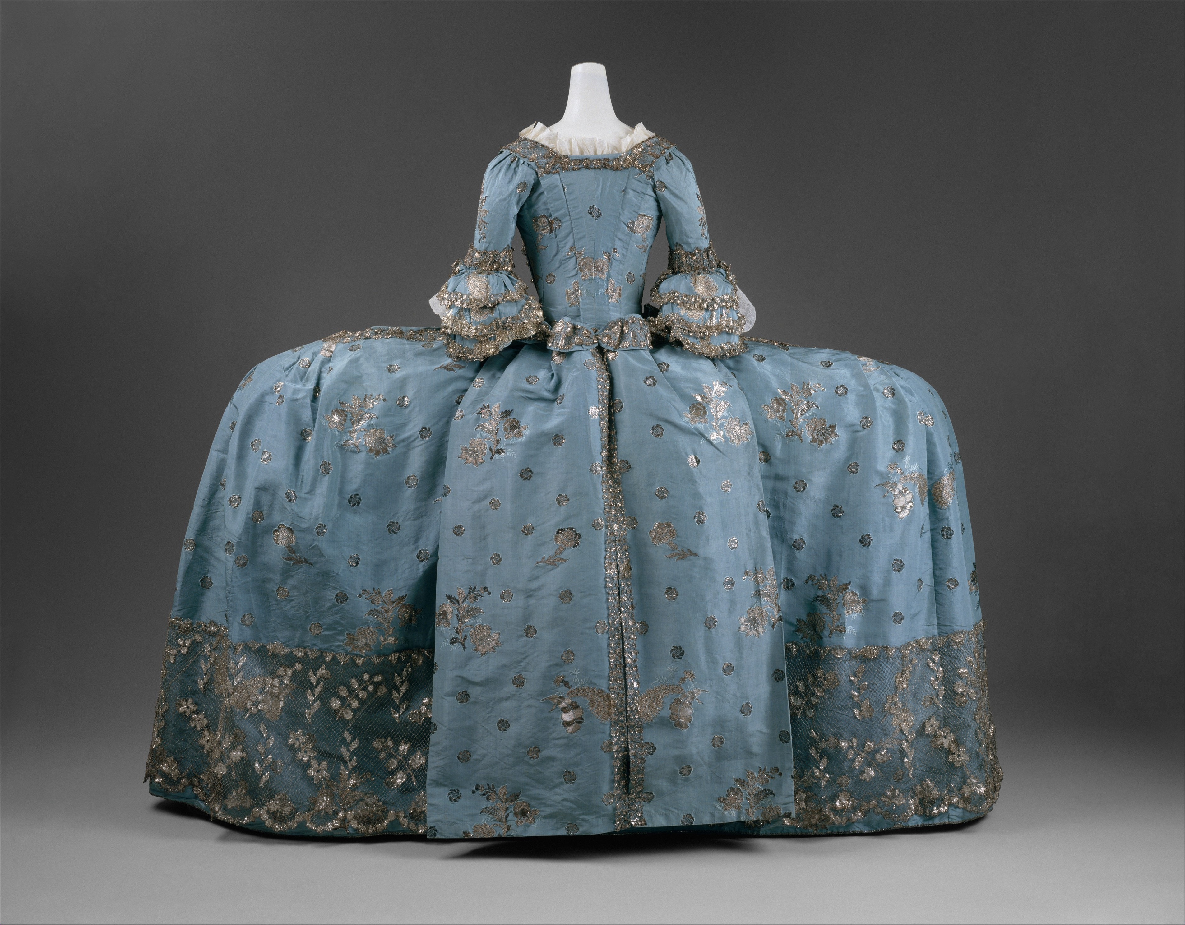 British; Court dress